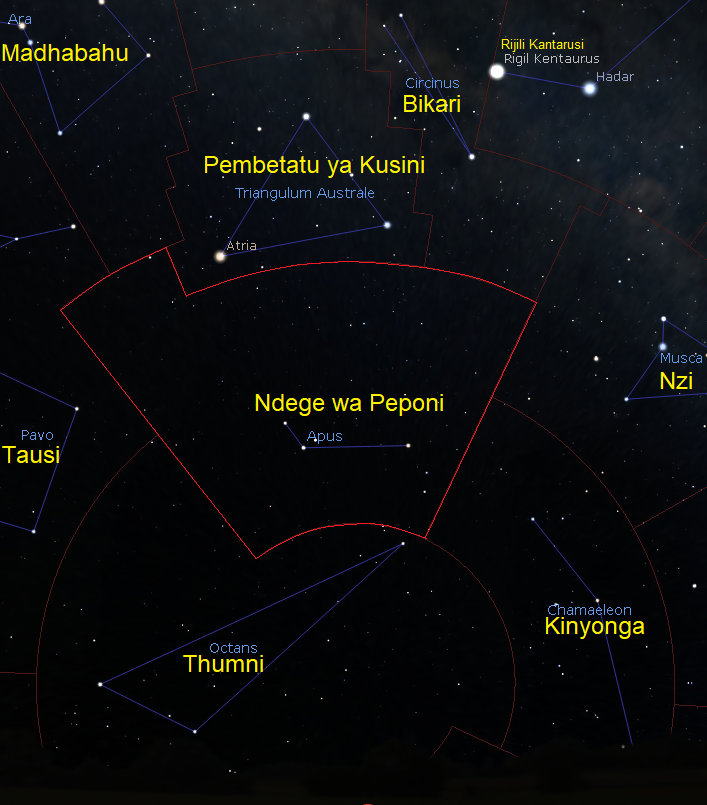 Apus constellation as seen from Tanzania Kiswahili: Kundinyota ya Ndege wa Pepeoni (Apus) jinsi inavyoonekana Tanzania